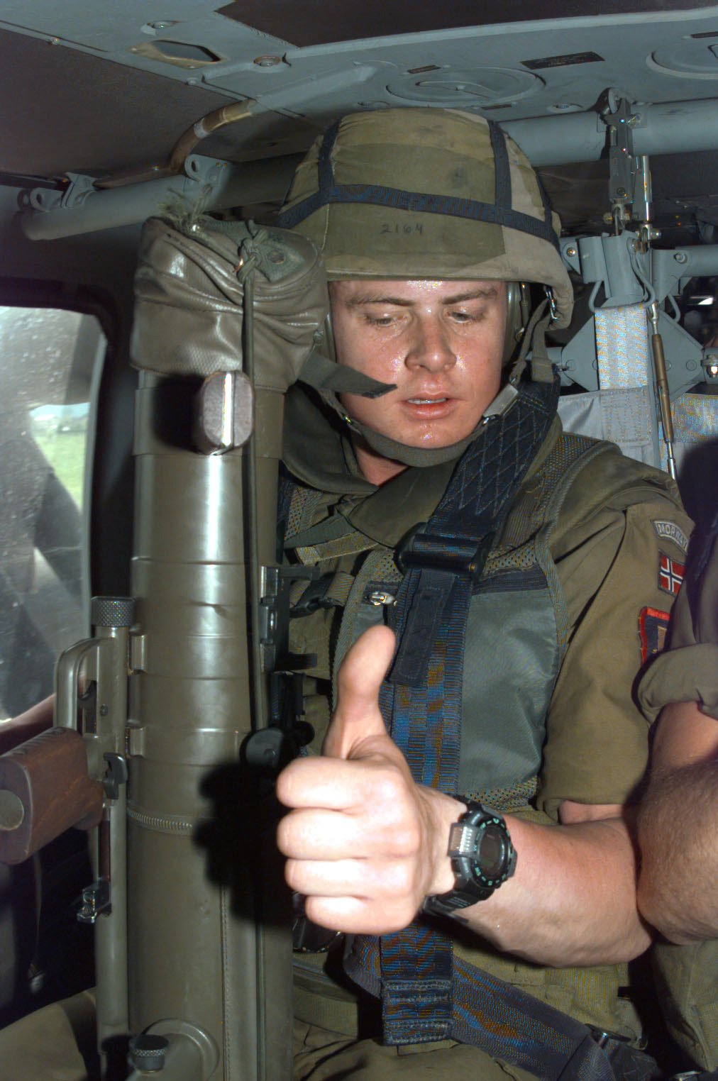 See caption. The weapon is a Carl Gustav 84 mm recoilless rifle.